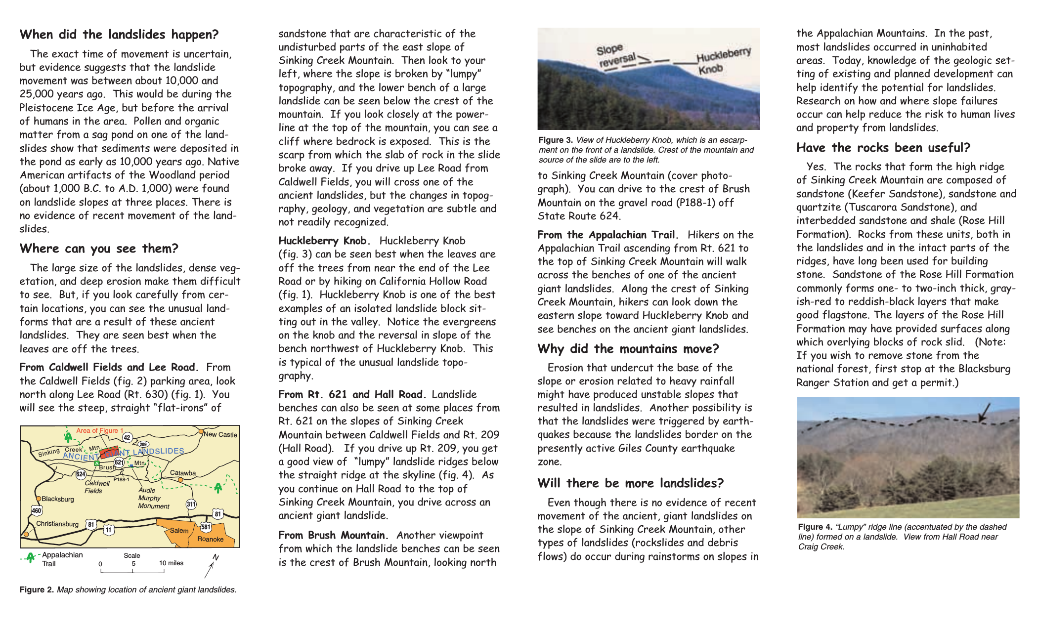 Government brochure describing geologic landslide on Sinking Creek Mountain, Jefferson National Forest, Virginia, page 2